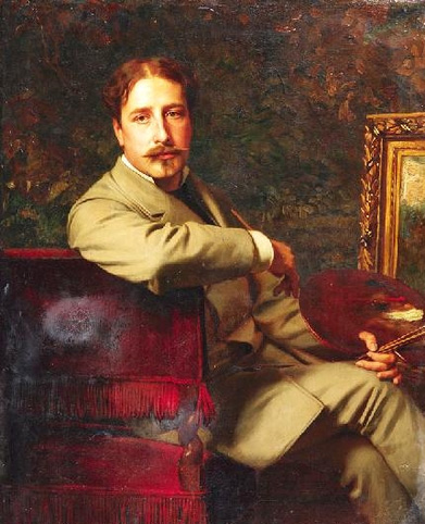 the painter Max Volkhart (1848-1924) painted by Julius Roeting, 1881. Oil on canvas. 115 x 90 cm.